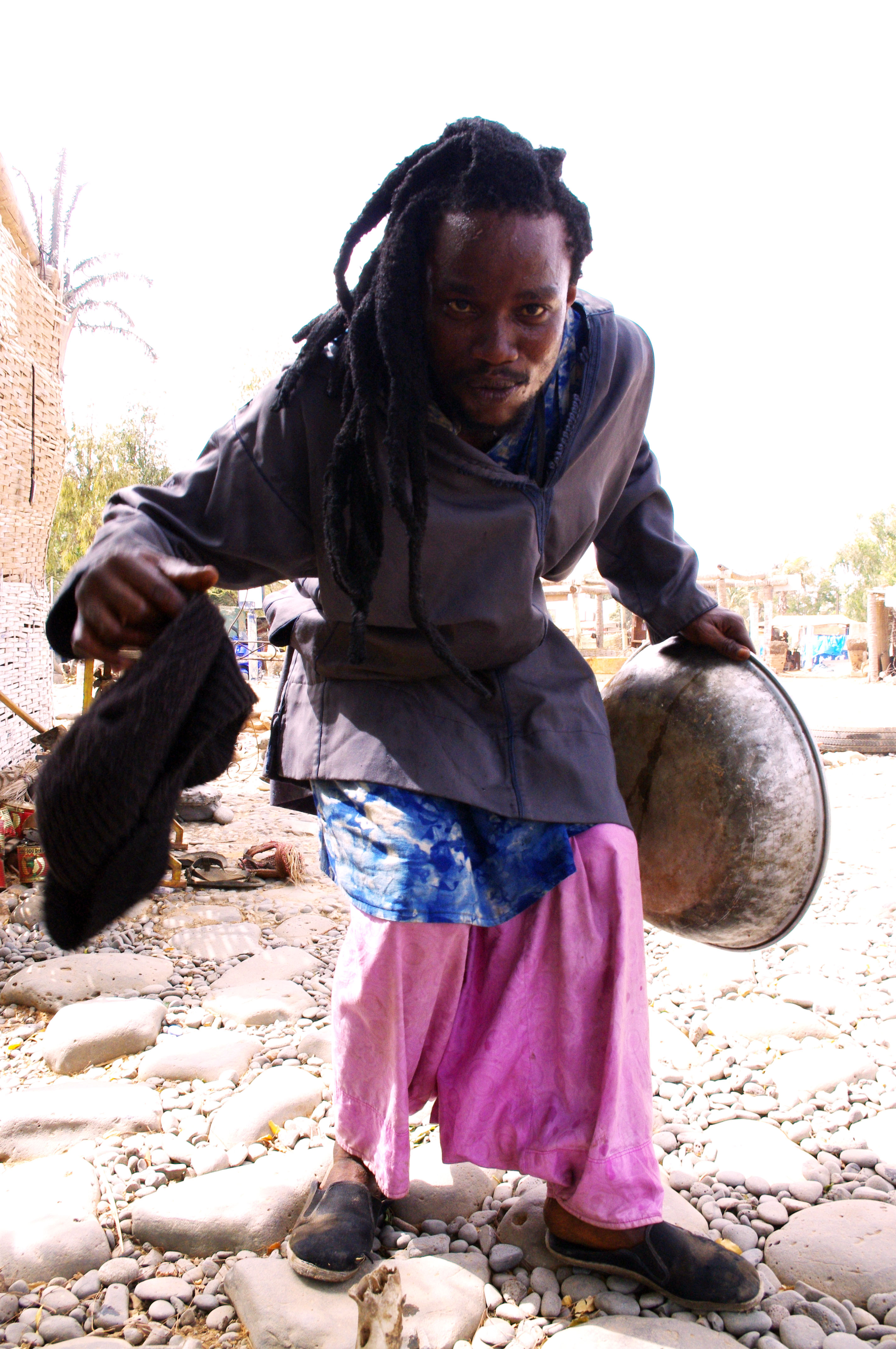 Member of the Baye Fall Sufi sect This is an image of Cultural Fashion or Adornment from Senegal